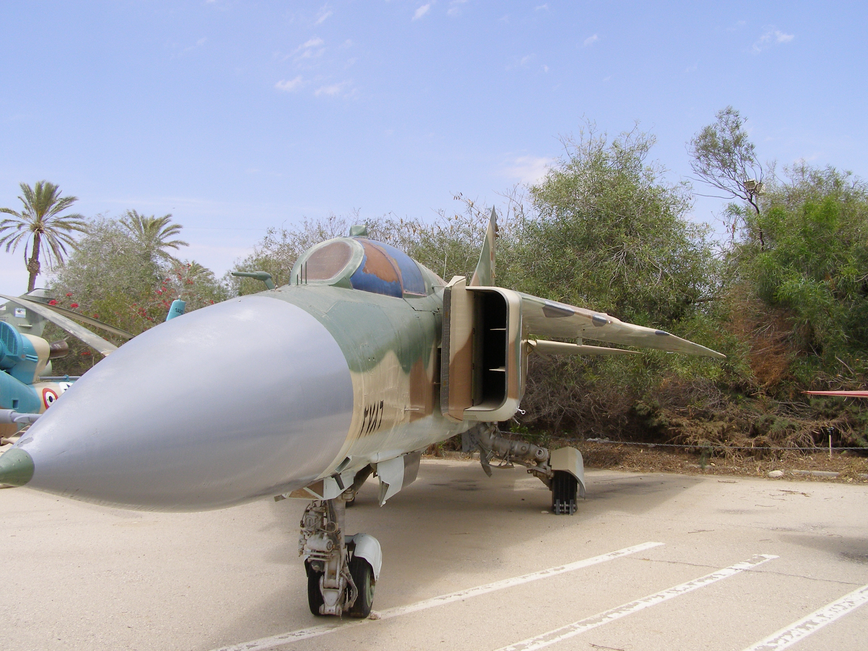 MIG-23MLD in Israeli Air Force Museum